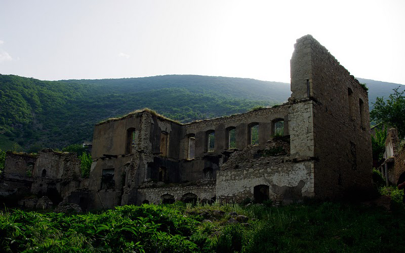 The ruins of the castle in Tukh (Nagorno-Karabakh)